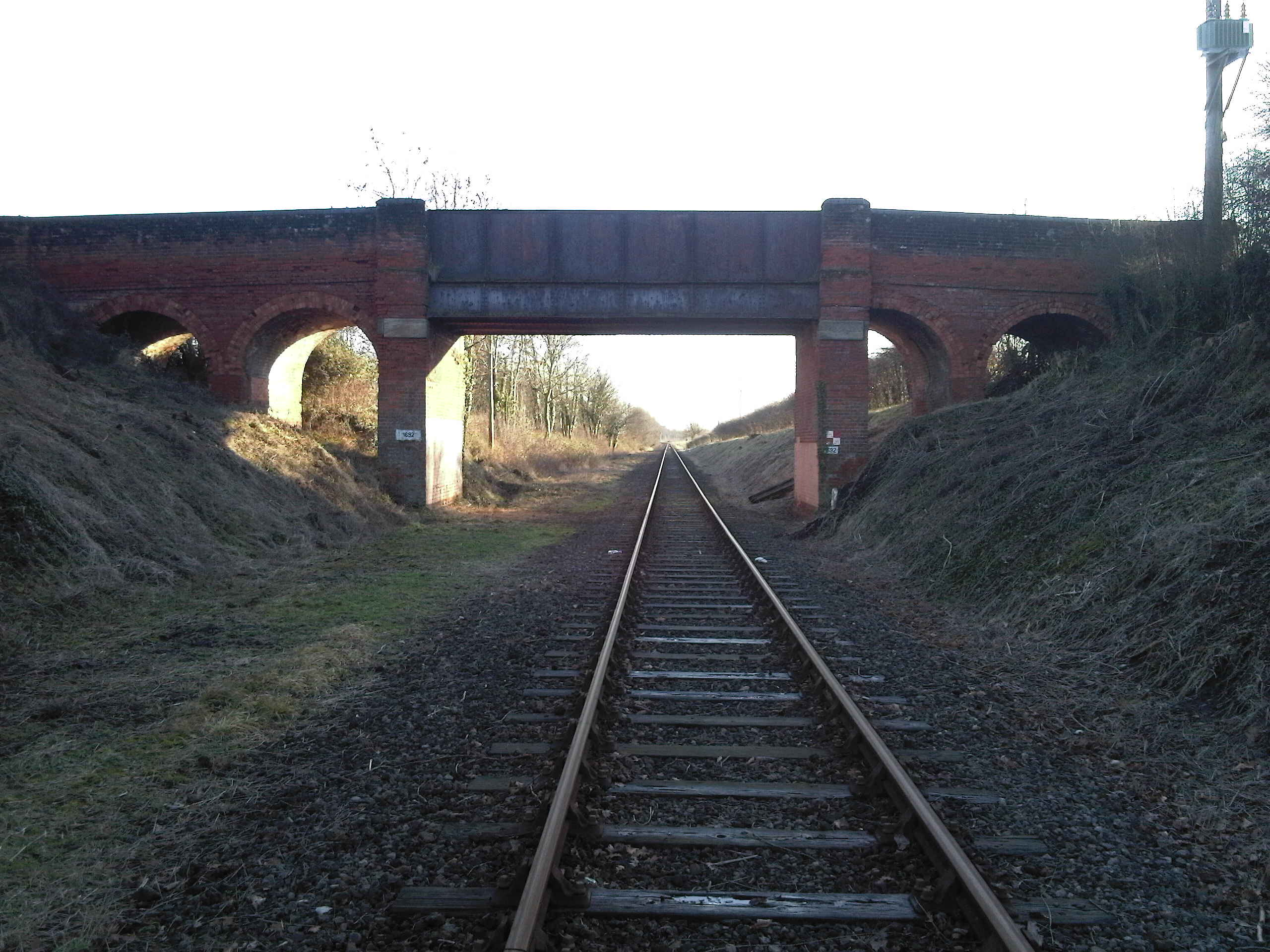 Original bridge, converted for double track line, now singled